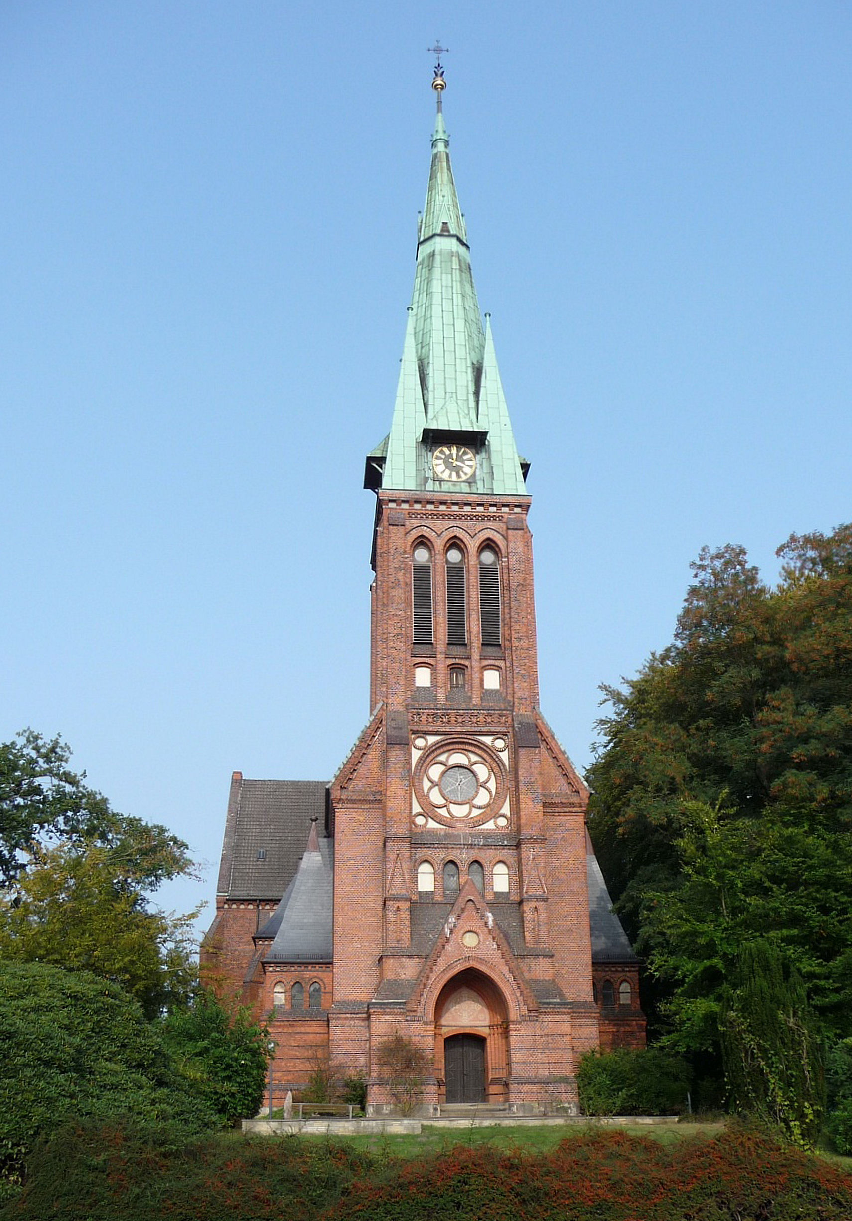 evang.-ref. church in Bremen-Blumenthal